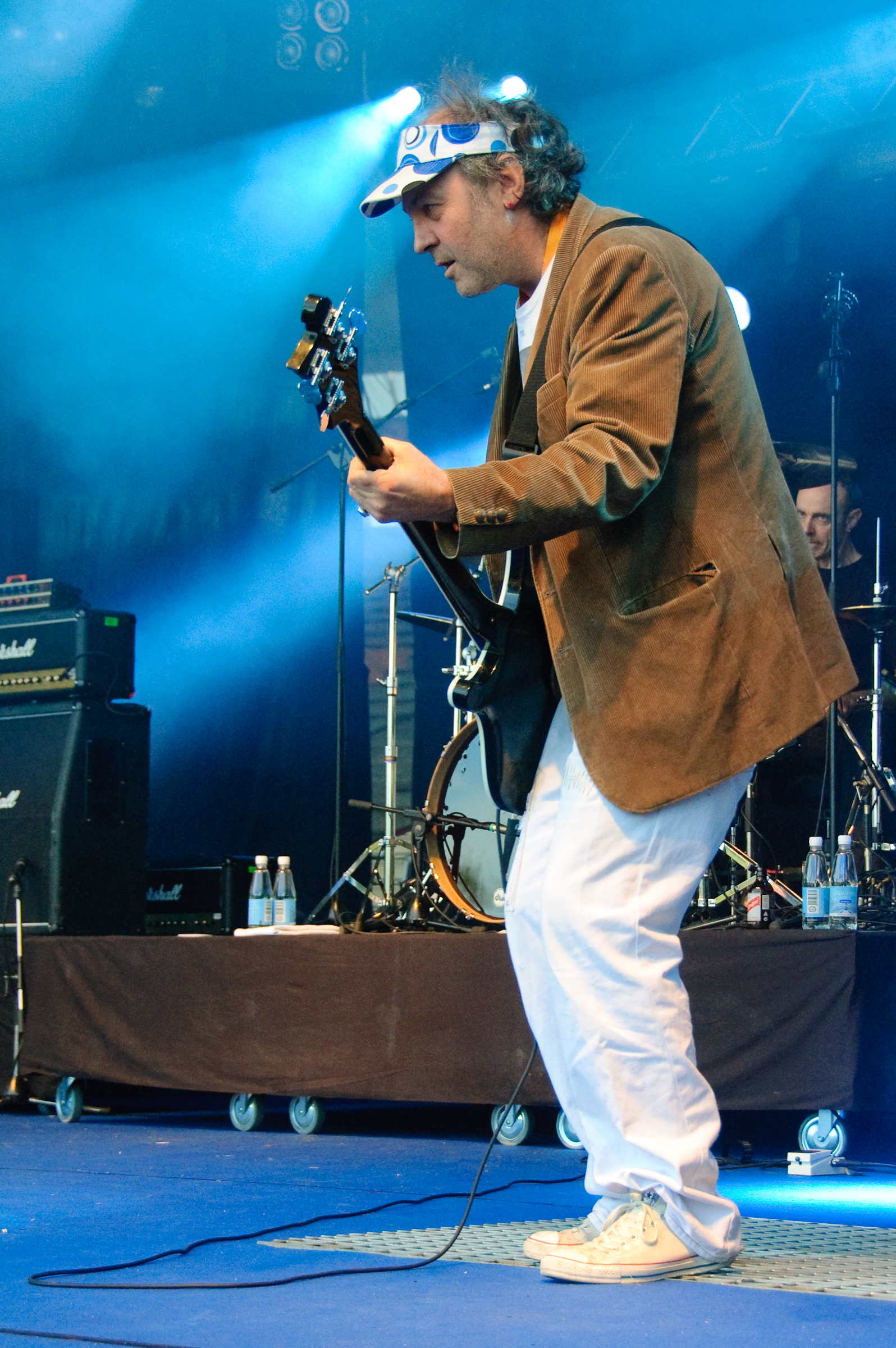 Bassist Martin Glover of Killing Joke performing at the Ilosaarirock festival in Joensuu, Finland.